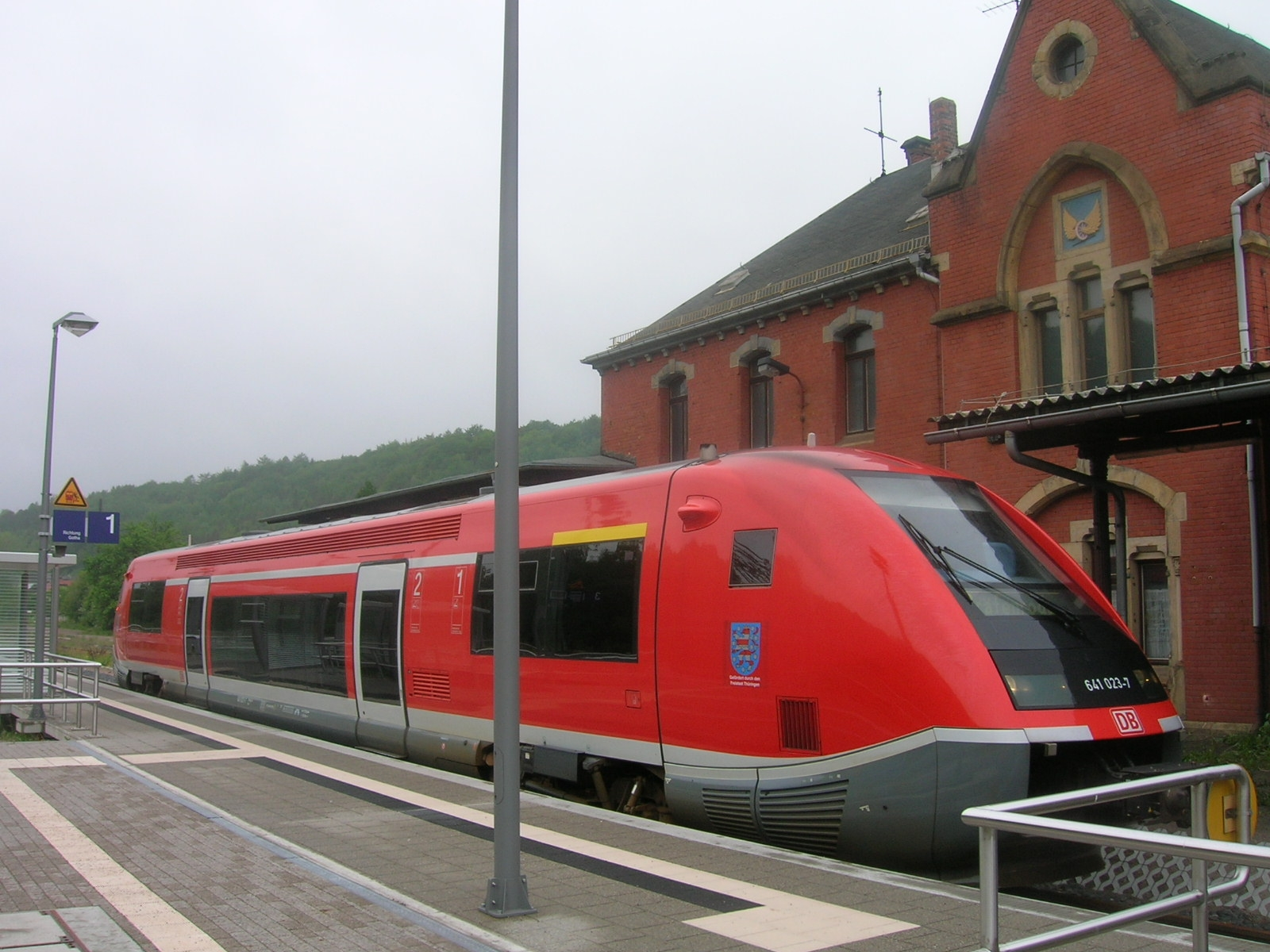 A Class 641 diesel railbus belonging to the Alstom Coradia A-TER family serving the Deutsche Bahn at Gräfenroda (Thuringia) on the Ohratalbahn (→ de).